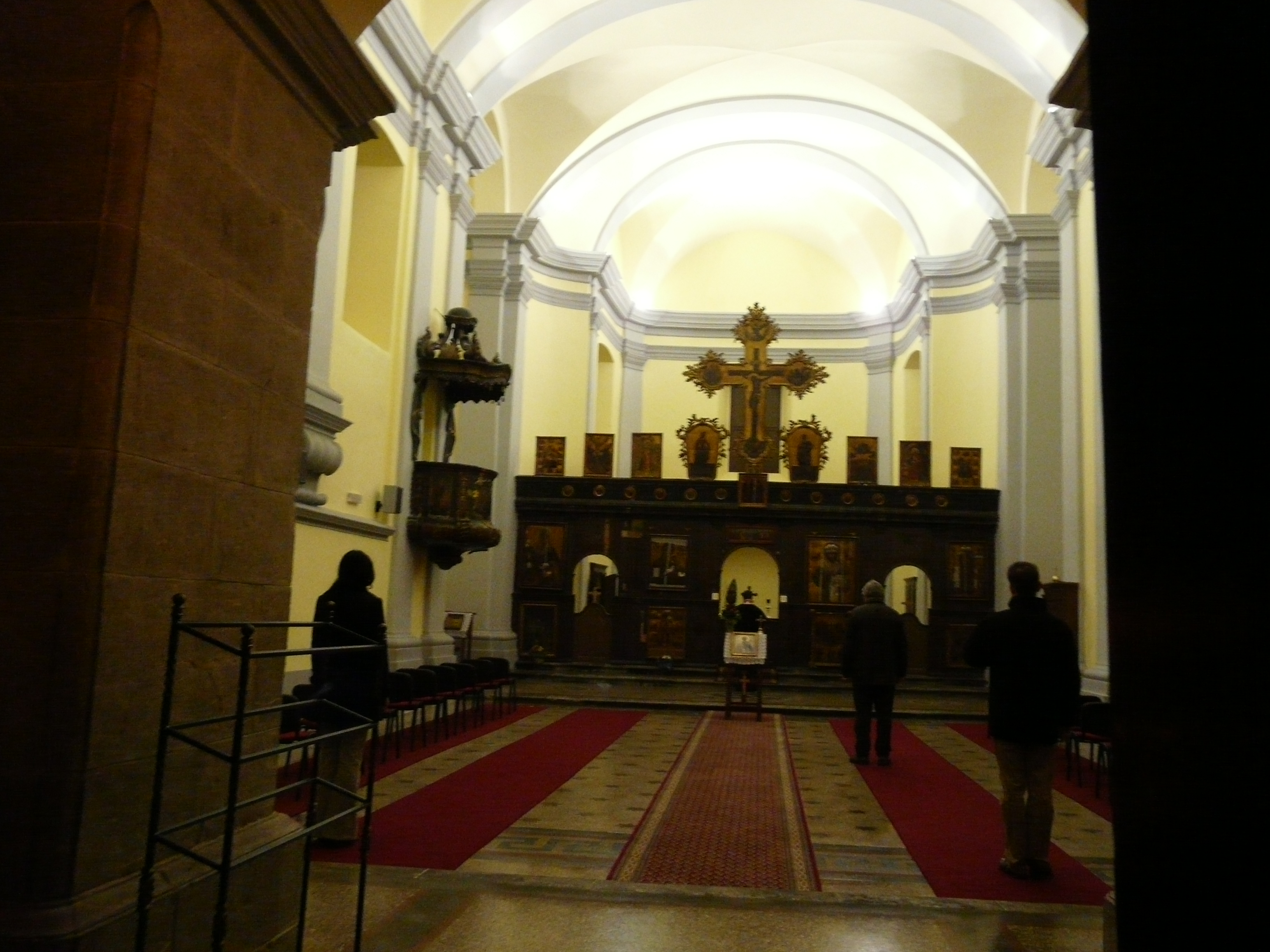 Interior of Serbian Ortodox Saint Nicola church in Rijeka (Croatia).